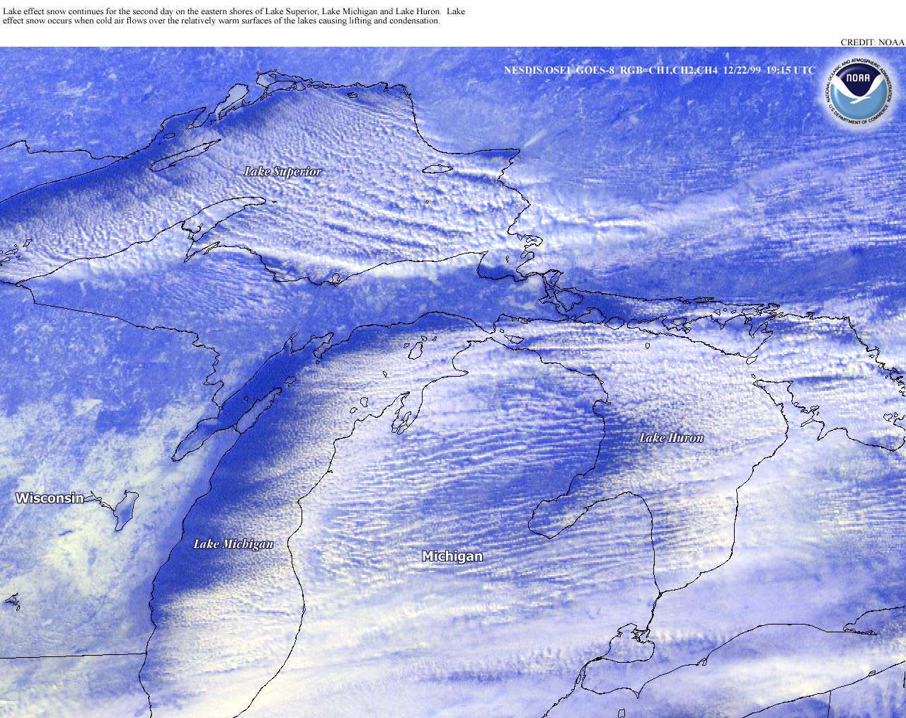 Cold air passing over the Great Lakes and giving extensive snowsqualls